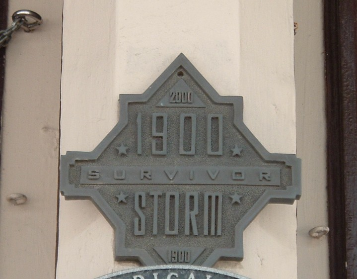 A memorial marker placed on many buildings along The Strand in Galveston, Texas, commemorating the building having survived the Hurricane of 1900. Taken by this user.